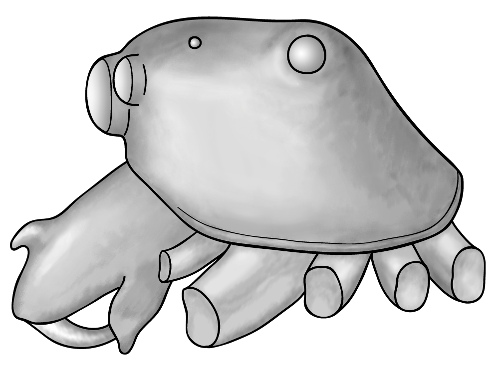 Diagram of carapace and chelicerae (lateral view) of a Zygoballus sexpunctatus jumping spider. Drawn from a preserved specimen.